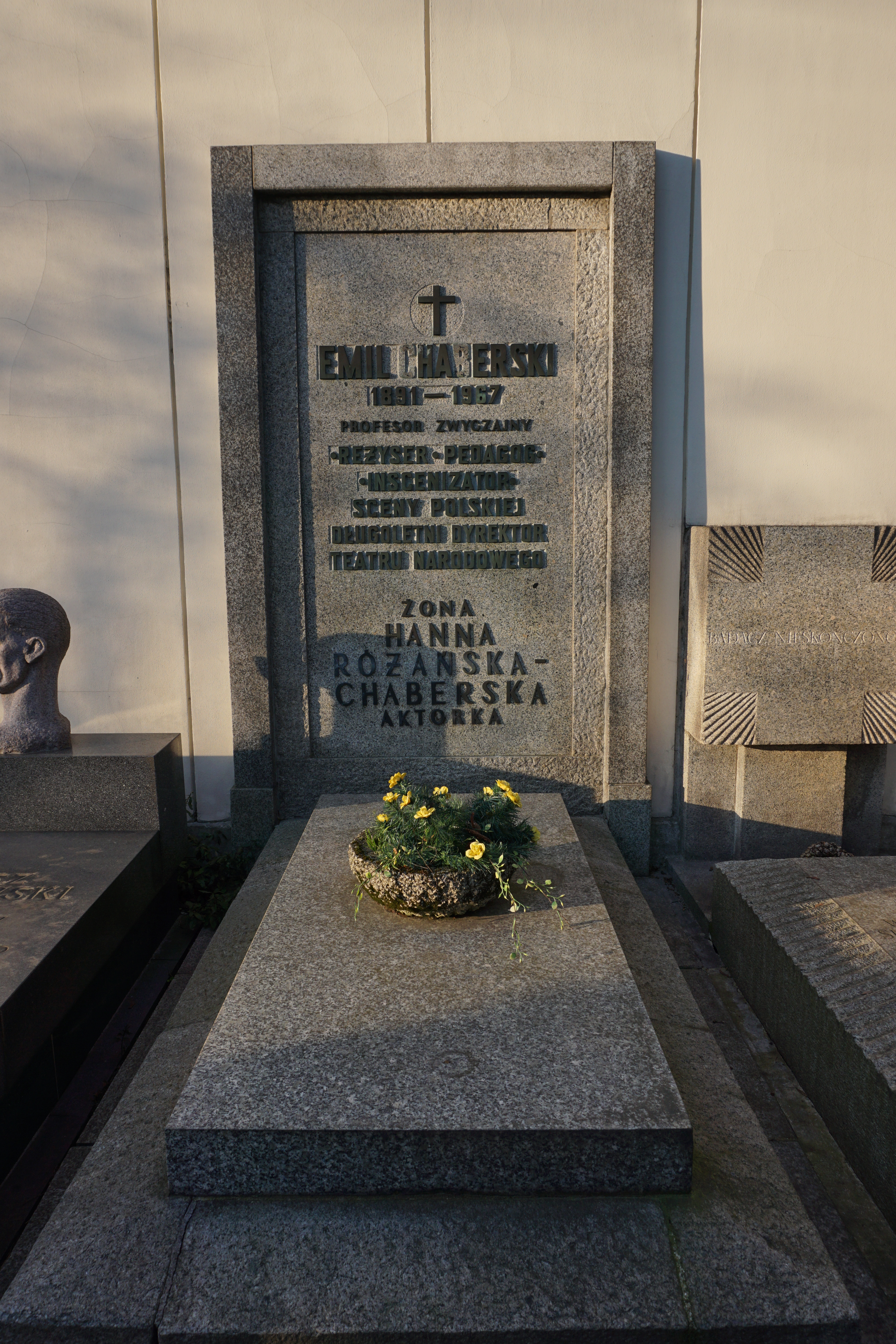 The grave of Emil Chaberski at the Powązki Cemetery (Avenue of Deserved, grave 152)